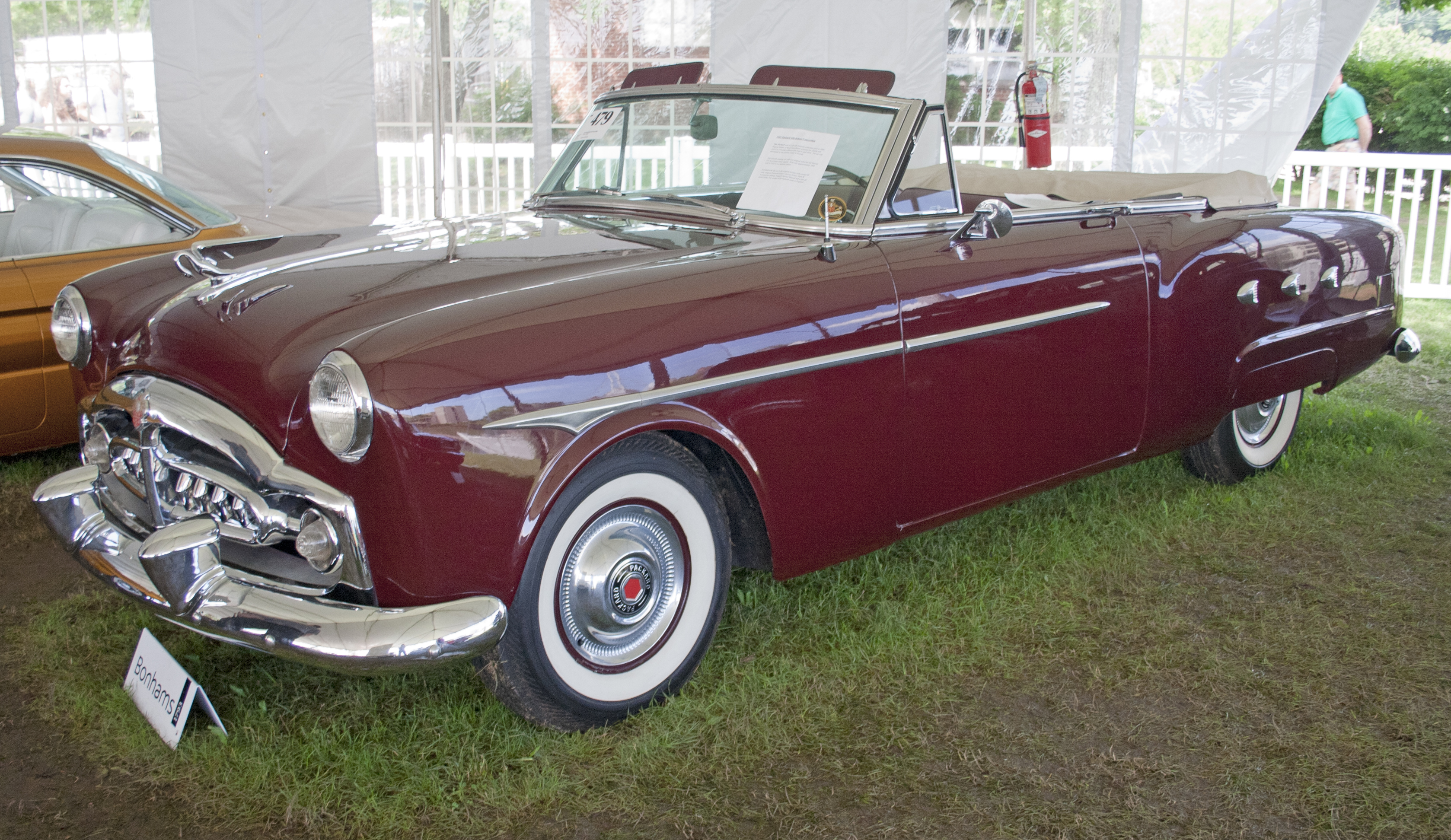 1952 Packard Series 250 Convertible, chassis no 2579-2255. The 250 was only available as a coupé or a convertible, and became the Clipper DeLuxe range for 1953. Seen at the Bonhams auction at the 2012 Greenwich Concours d'Elegance.